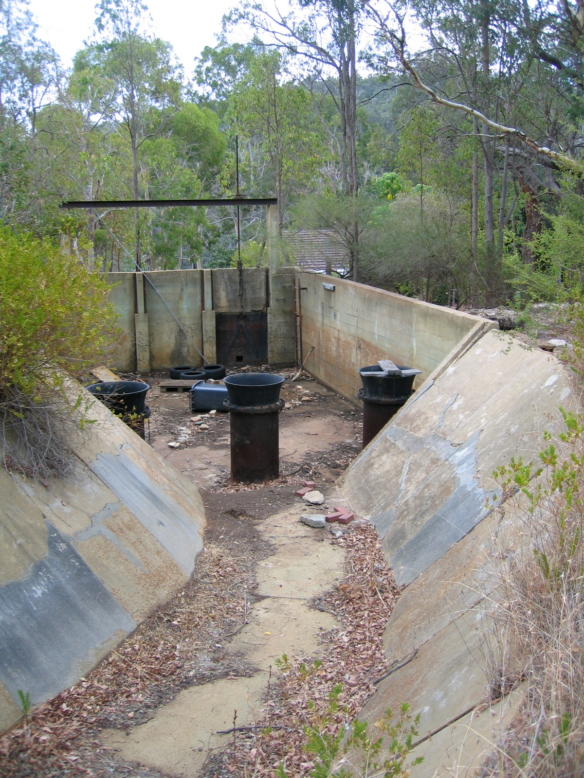 Picture of Canning Contour Channel, where it enters a siphon tank, just off Contour road in Roleystone. Photo taken by William Moore in April 2009. Summary Picture of Canning Contour Channel, where it enters a siphon tank, just off Contour road in Roleystone. Photo taken by William Moore in April 2009.